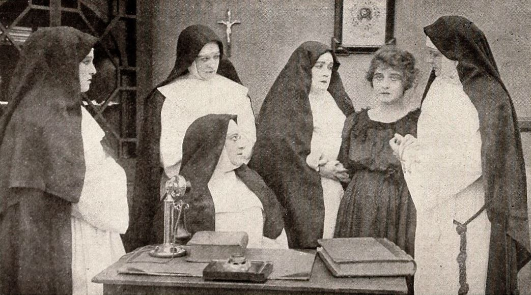 Still from the American drama film A Soul Enslaved (1916) with Cleo Madison, on page 66 of the February 1916 Cine-Mundial (American Spanish language magazine).